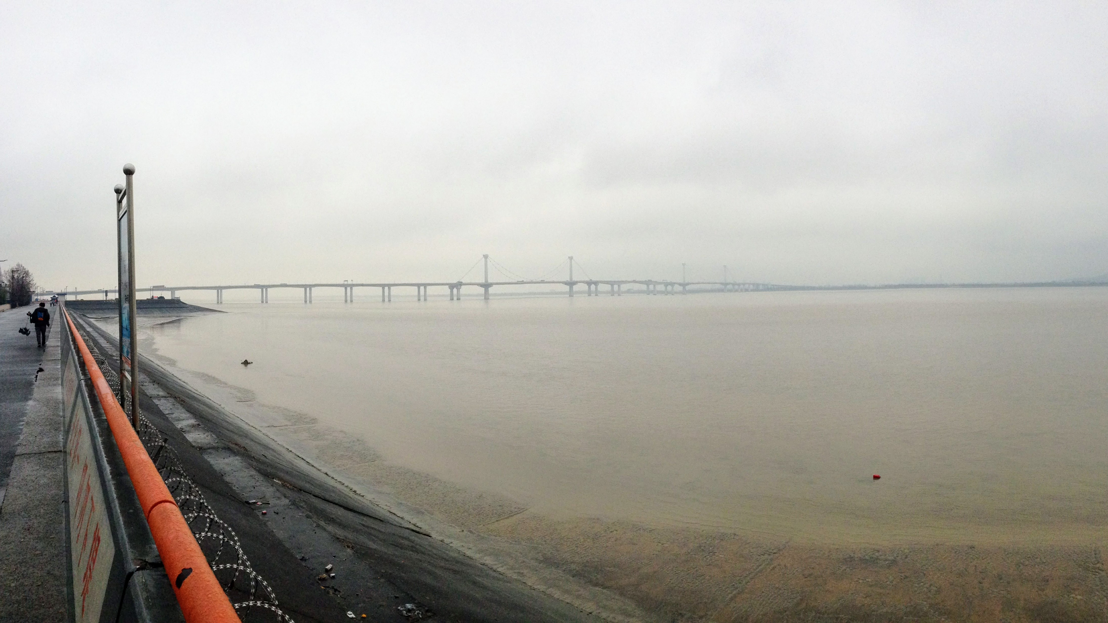 Jiangdong bridge overlook.